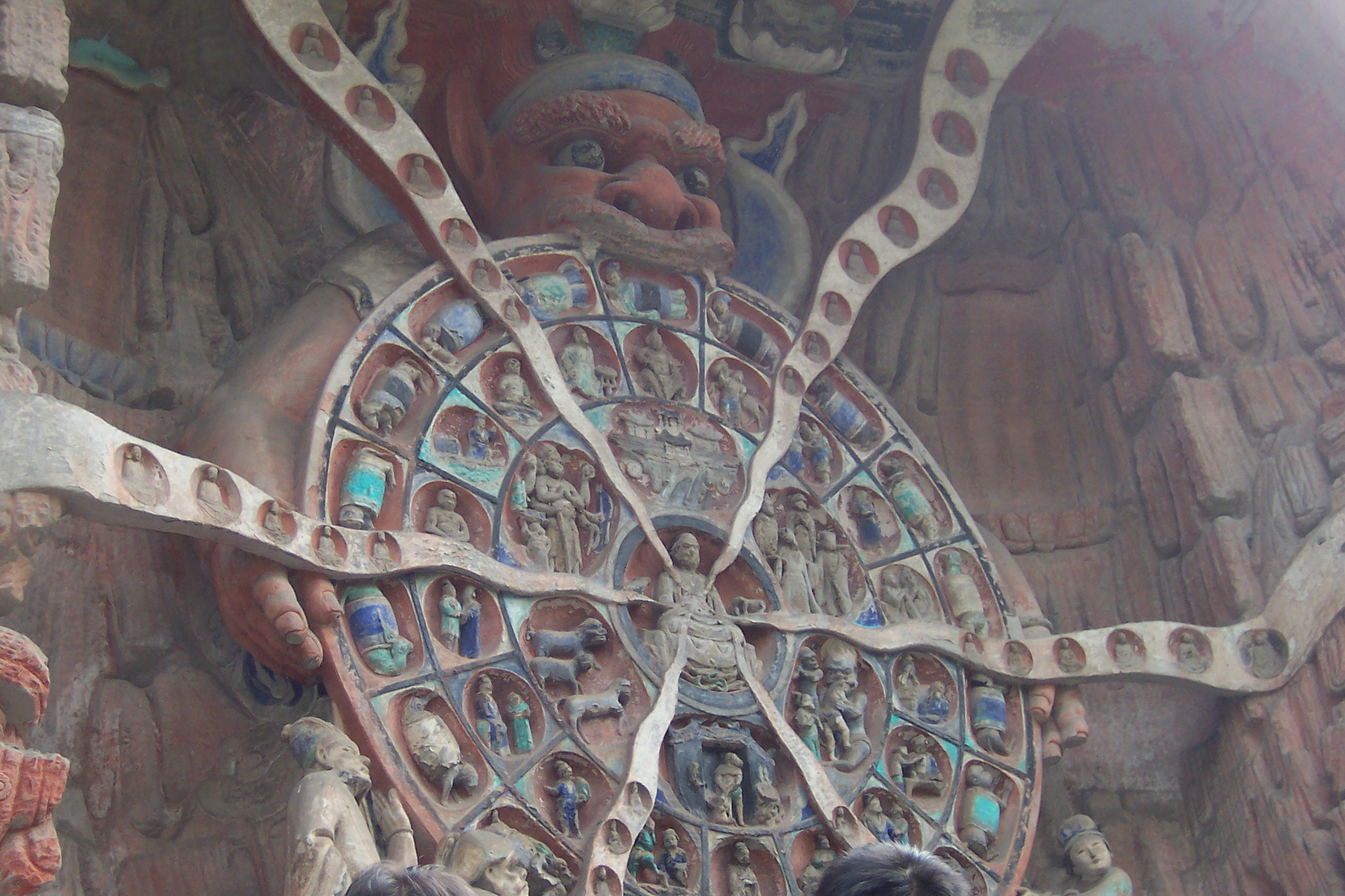 Picture of circle of life carving at Baoding Shan in Dazu